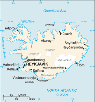 A map of Iceland, showing major towns.